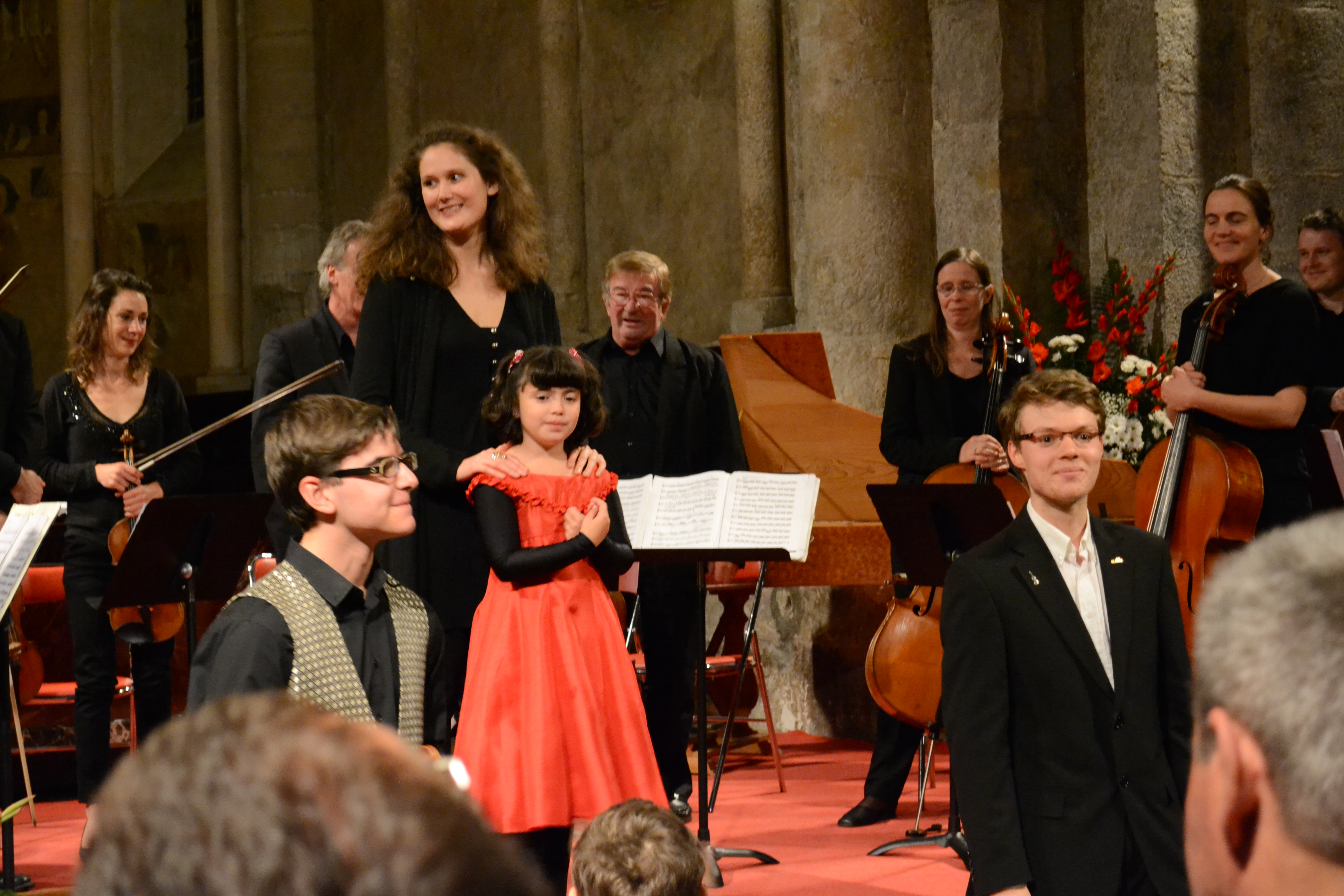 Marie Cantagrill International Violin Competition 2013 - 1st Prizes Winners Concert